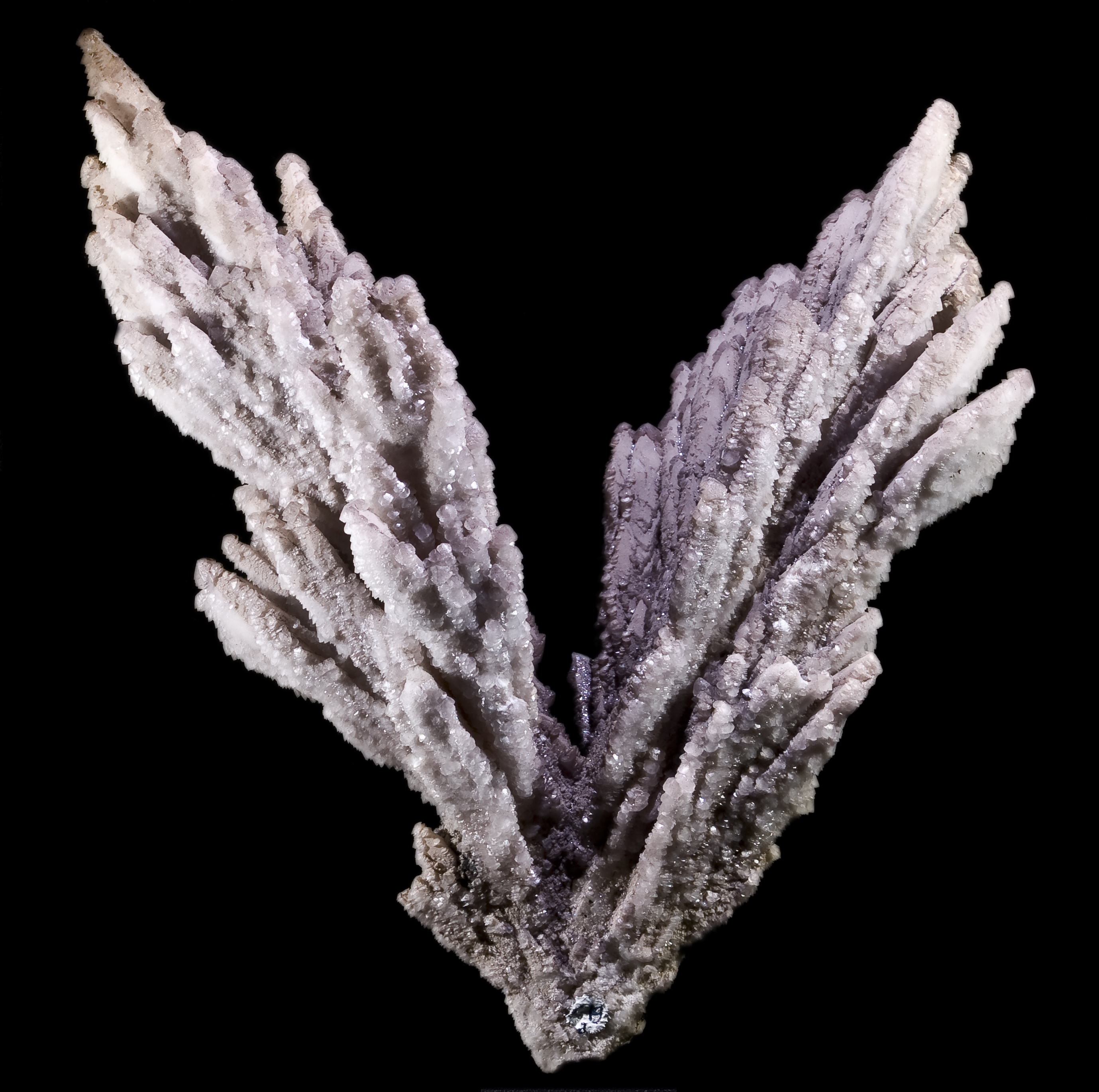 Calcite - Polysynthetic twin Locality : Batère Mine, Pyrénées Orientales France Size (17x13cm)